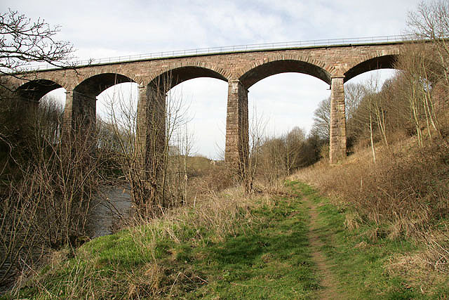 Twizel Viaduct This impressive structure spanning the River Till carried the Tweedmouth to Kelso railway line that was closed in the early 1960s. Built in 1849, it was recently upgraded to allow public access over the bridge thereby linking in with a network of public footpaths. The 6-arch viaduct, also known as St Cuthbert’s Viaduct, is a grade 2 listed structure under the care of BRB (Residuary) Ltd who are responsible for the remaining assets of the British Railways Board. The 5 arches shown here are just within the square. Viewed from the public footpath to Twizel Boathouse